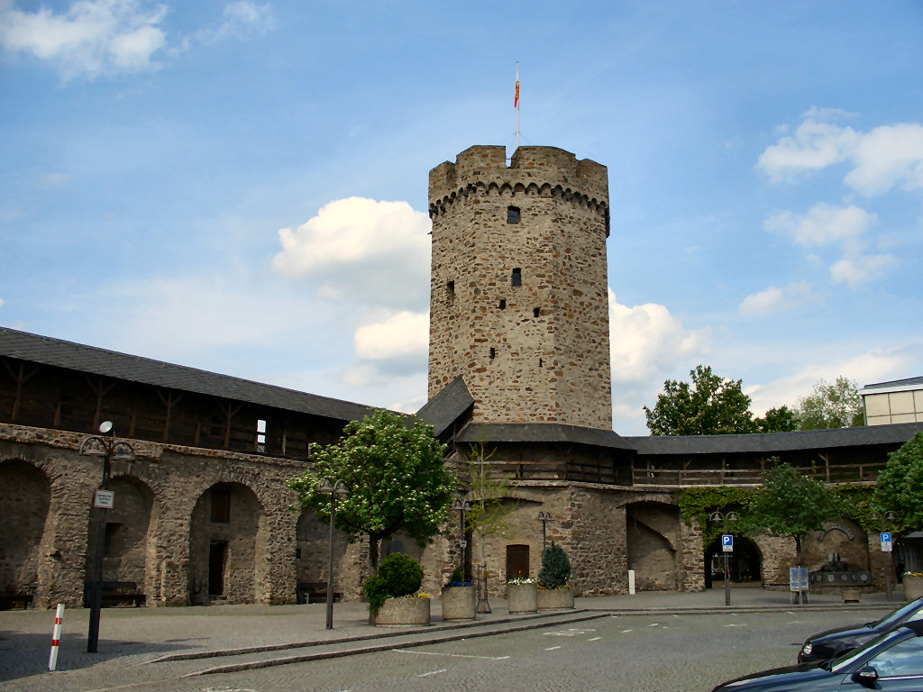 Lahnstein